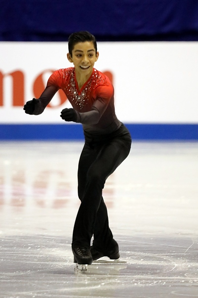 Donovan Carrillo, a figure skater from Mexico